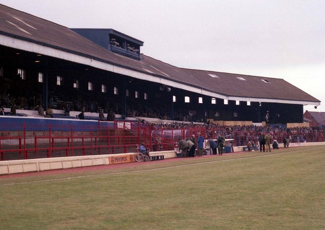 The old main stand at Ewood Park in Blackburn